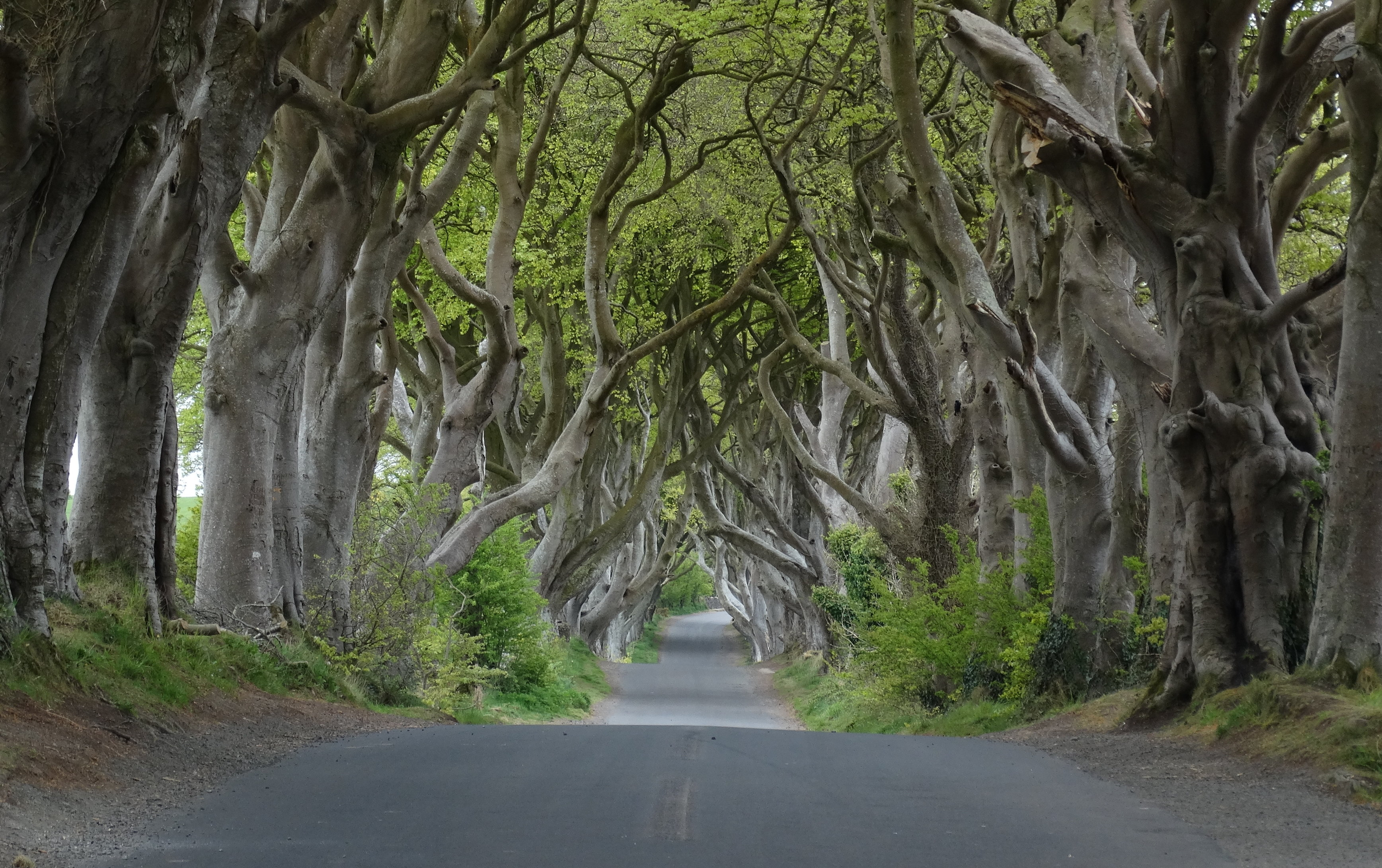 Dark Hedges tree tunnel near Armoy, County Antrim, Northern Ireland. Image taken May 2016. Minor cropping of width compared to original source image.